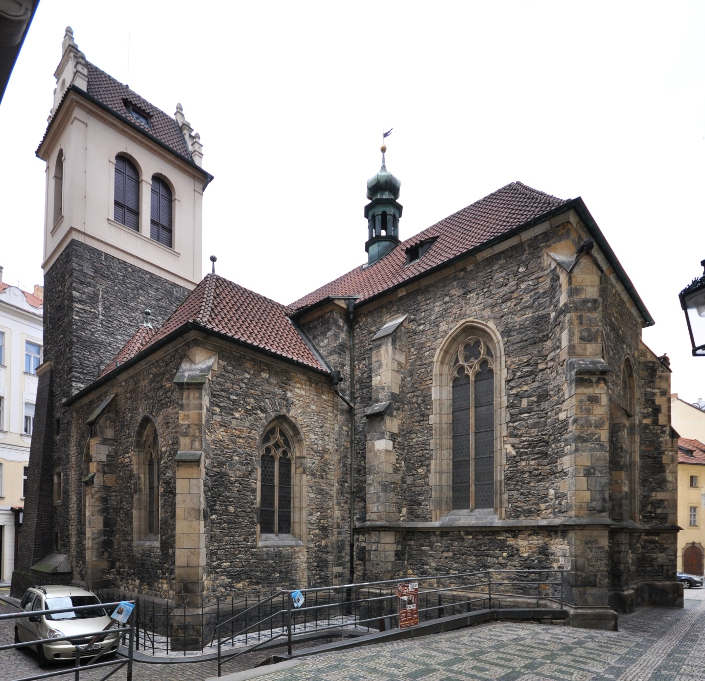 Church in Prague